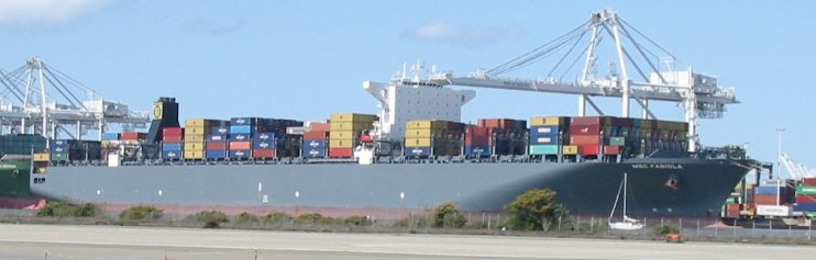 The container ship MSC Fabiola as seen docked in Oakland, California, nearly loaded and ready to leave port a few hours later.